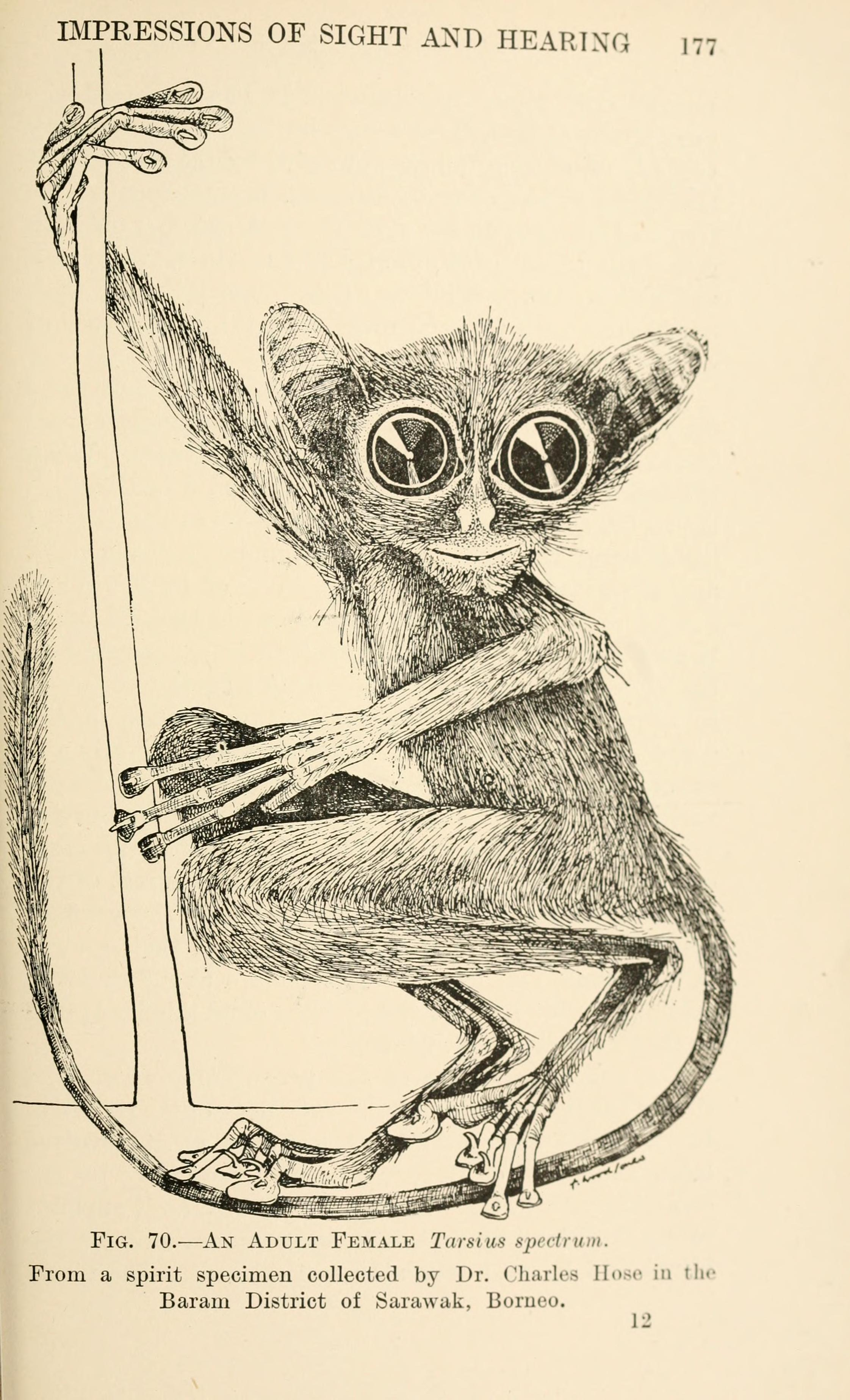 Title: Arboreal man Year: 1916 (1910s) Authors: Jones, F. Wood (Frederic Wood), 1879-1954 Subjects: Human beings -- Origin Publisher: London, E. Arnold Text Appearing Before Image: IMPRESSIONS OF SIGHT AND HEARING 177 Text Appearing After Image: Fig. 70.—An Adult Female Tarsius spectrum. From a spirit specimen collected by Dr. Charles llosc iit the Baram District of Sarawak, Borueo, \-2